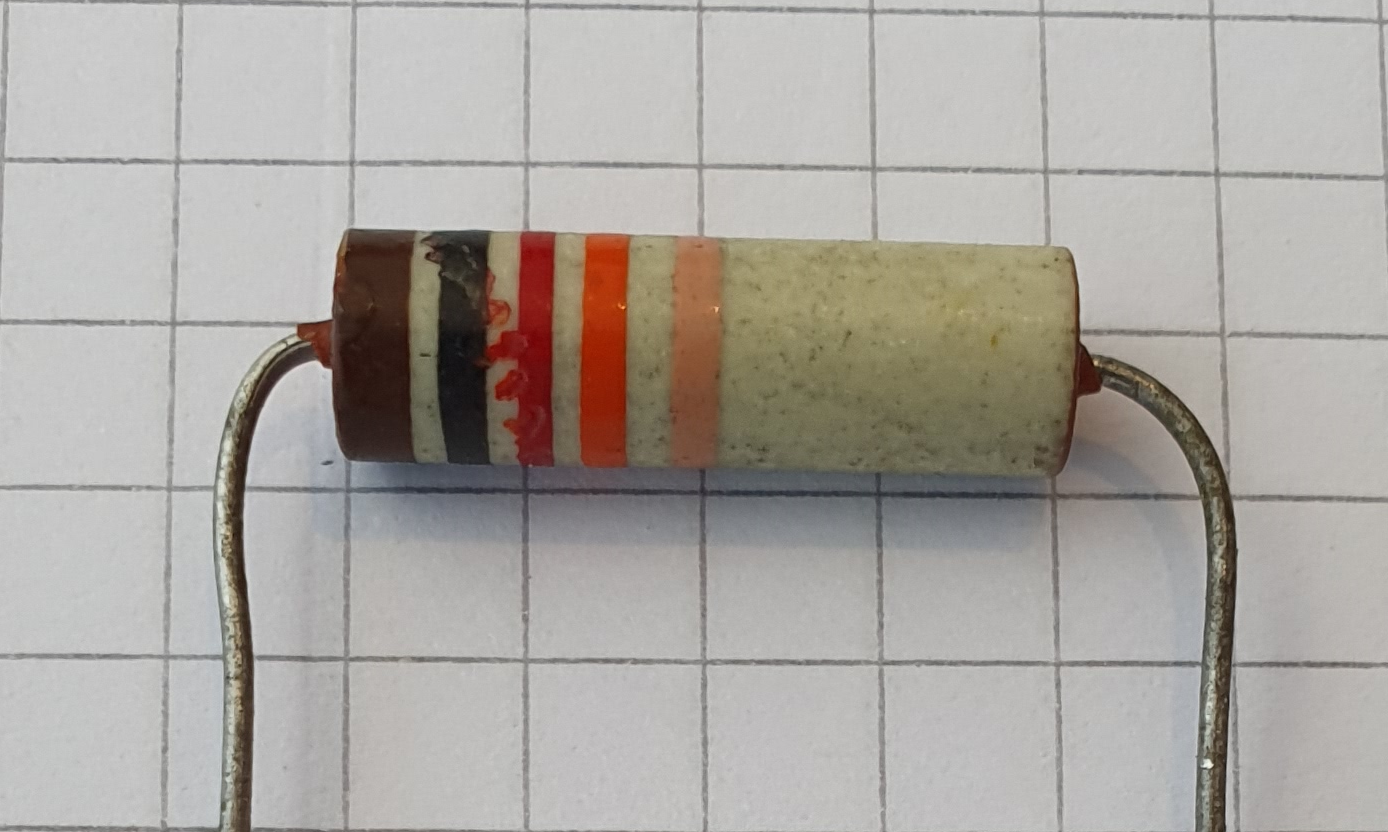 Leaded carbon composition resistor, ceramic covered